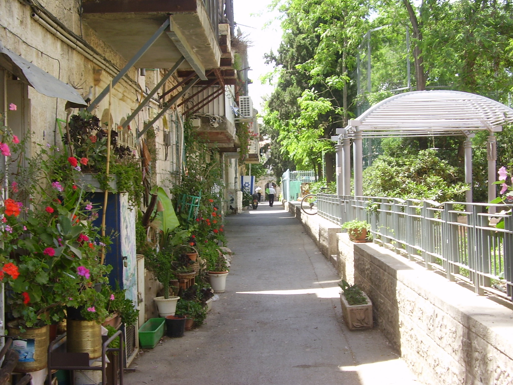 Mazkeret Moshe Jerusalem, Sh. Y. Shirizli sreet